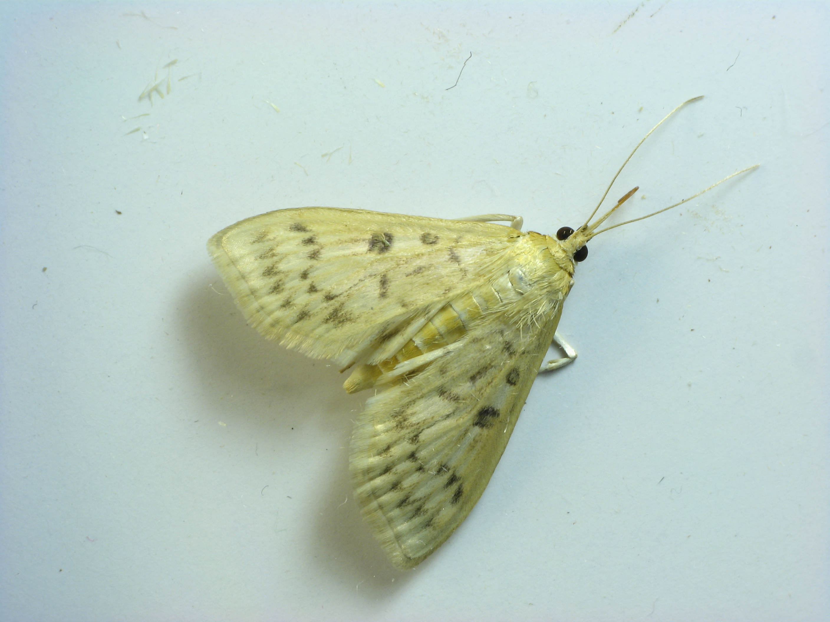 Adult Herpetogramma moth (likely Herpetogramma abdominalis). Size wingspan ~30 mm, body length ~14 mm. From leafroller caterpillar on wood nettle (Laportea canadensis). Catalochee, Great Smokies National Park, Haywood County, North Carolina, USA.